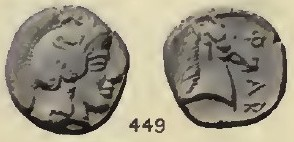 Greek coins and their parent cities (1902) Author: Ward, John, 1832-1912; Hill, George Francis, Sir, 1867-1948 Subject: Coins, Greek; Numismatics, Greek; Greece -- Description, geography; Italy -- Description and travel; Turkey -- Description and travel Publisher: London : Murray Possible copyright status: NOT_IN_COPYRIGHT Language: English Call number: AKB-0671 Digitizing sponsor: MSN Book contributor: Robarts - University of Toronto Collection: toronto Scanfactors: 7